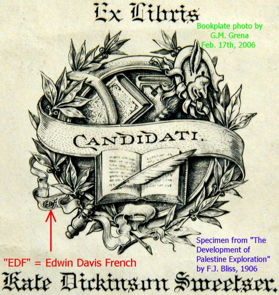 I took this photograph today (2-17-2007) of a bookplate engraved by Edwin Davis French over 100 years ago for author, Kate Dickinson Sweetser. The book, "The Development of Palestine Exploration, Being The Ely Lectures for 1903" (NY: Charles Scribner's Sons), was inscribed by her relative/author, Dr. Frederick Jones Bliss. This book was published in 1906, the same year the engraver died.